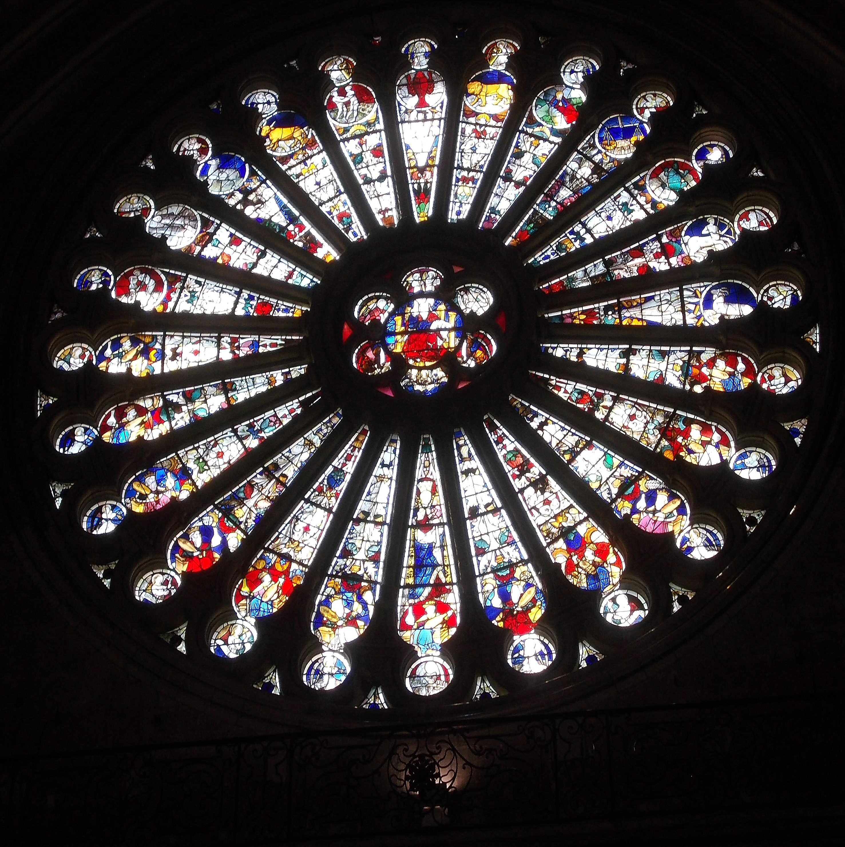 South rose window in Angers Cathedral of Saint Maurice. Stained glass by Andre Robin created after the fire of 1451. At centre, Christ of the Apocalypse, in glory (Revelation 21:5). At bottom, 12 radial windows showing 12 elders, crowned and playing musical instruments, rejoicing, indicating the remade world (the heavenly Jerusalem). At top, circular ends of 12 radial windows showing the 12 signs of the Zodiac, indicating the incarnation of Christ as a man on earth under the stars. Sequence from left to right has last 2 signs before first, i.e. Aquarius/Water-bearer (grey), Pisces/Fish (grey), Aries/Ram, Taurus/Bull (yellow), Gemini/Twins, Cancer/Crab (red), Leo/Lion (yellow), Virgo/Virgin, Libra/Scales, Scorpio/Scorpion, Sagittarius/Archer, Capricorn/He-goat (blue background).